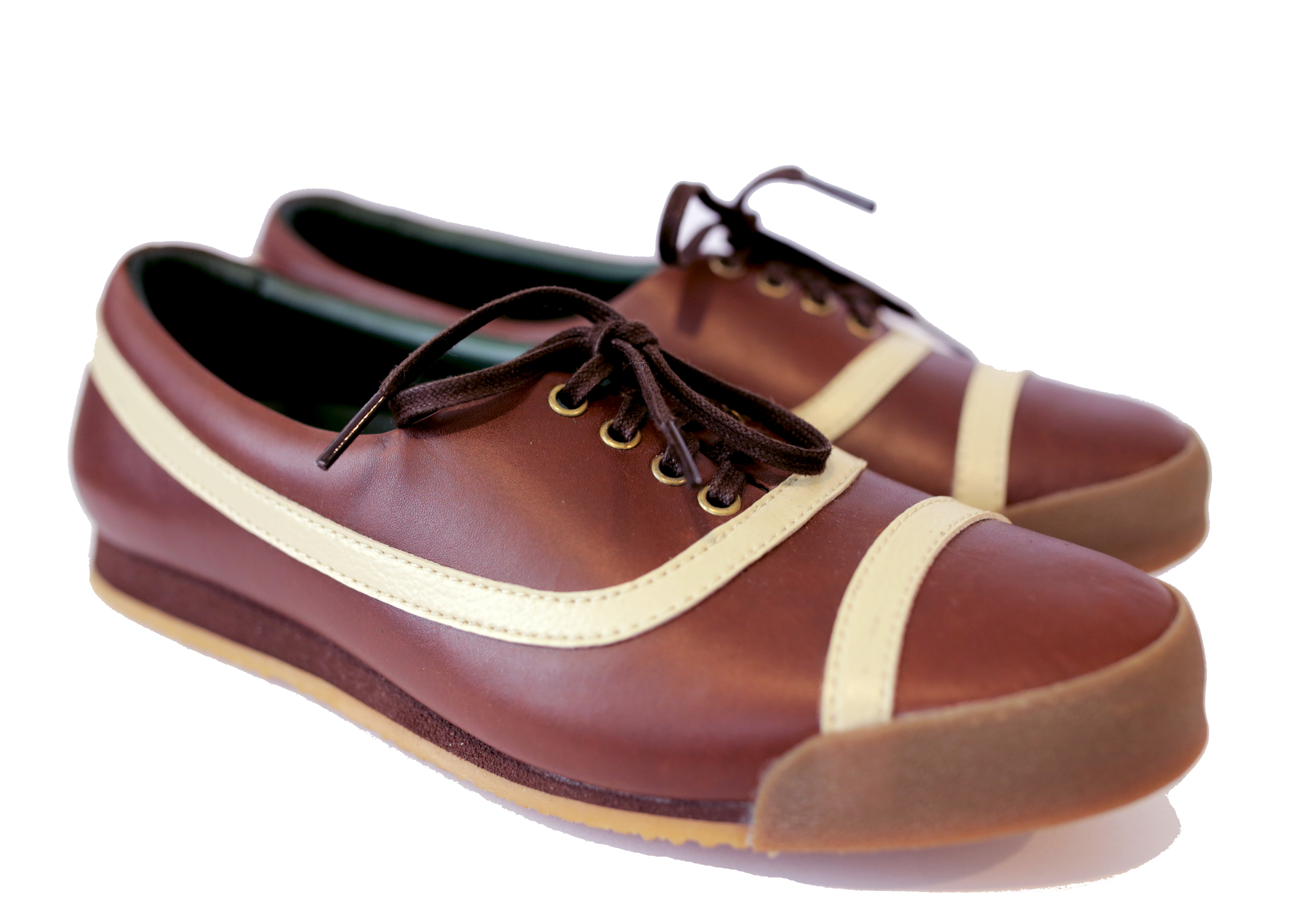 A product by HeavyTaste Australia.